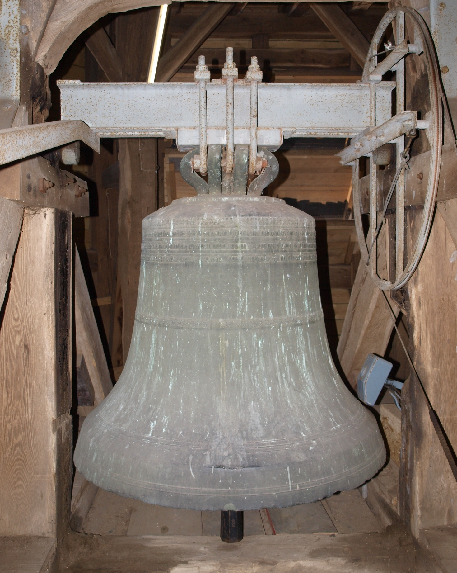 Big bell of the protestant Jacob's church in Lang-Göns, cast in 1690 by Dilman Schmid in Aßlar